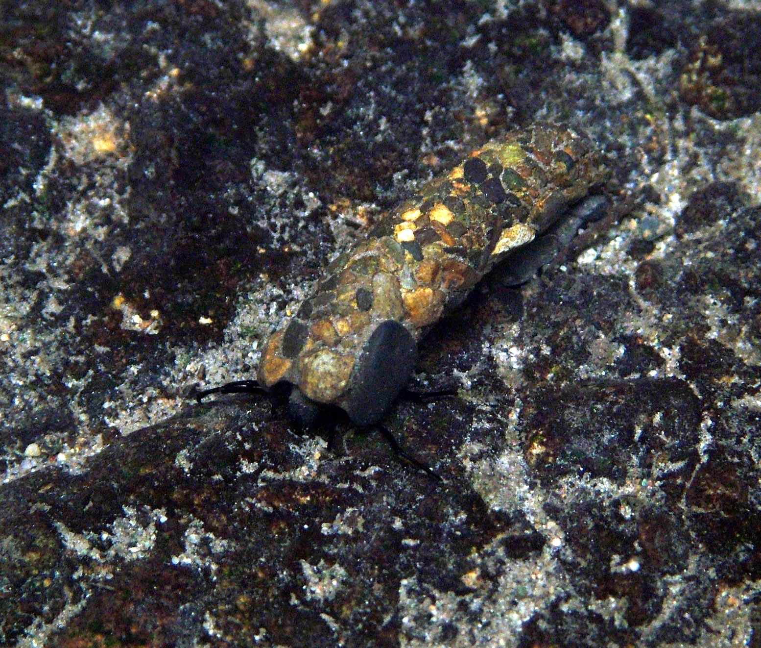 Caddisfly larva with pebble case in Thornton Creek, early Summer 2007, Seattle, WA, USA.